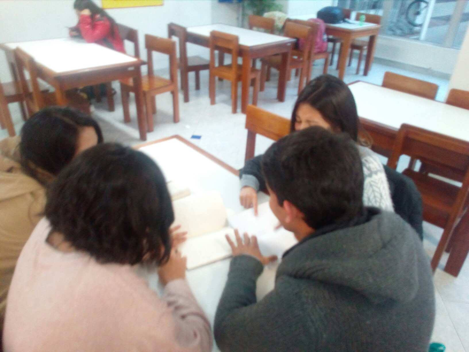 A group of four Ecuadorian students working together as members of a collectivist culture